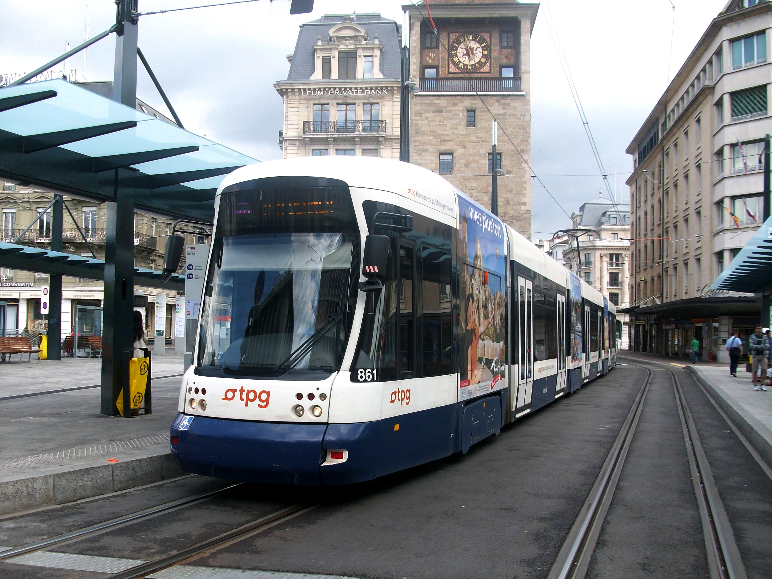 Bombardier Flexity Outlook Cityrunner (TPG), Geneva